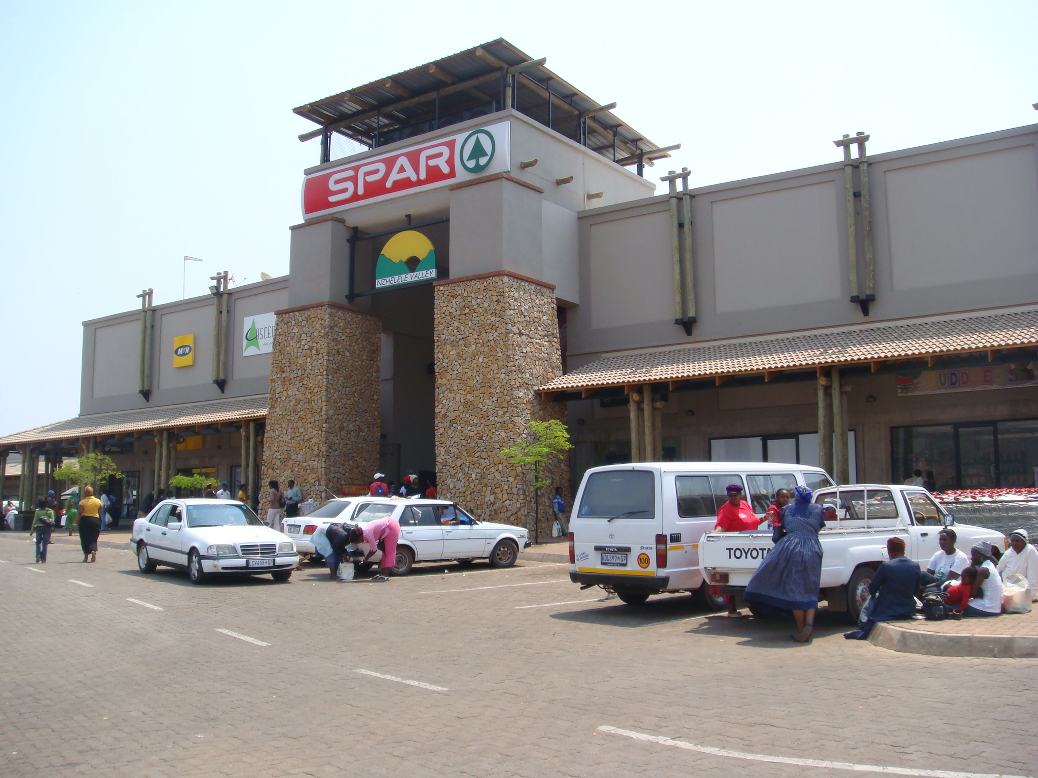 Nzhelele valley shopping centre